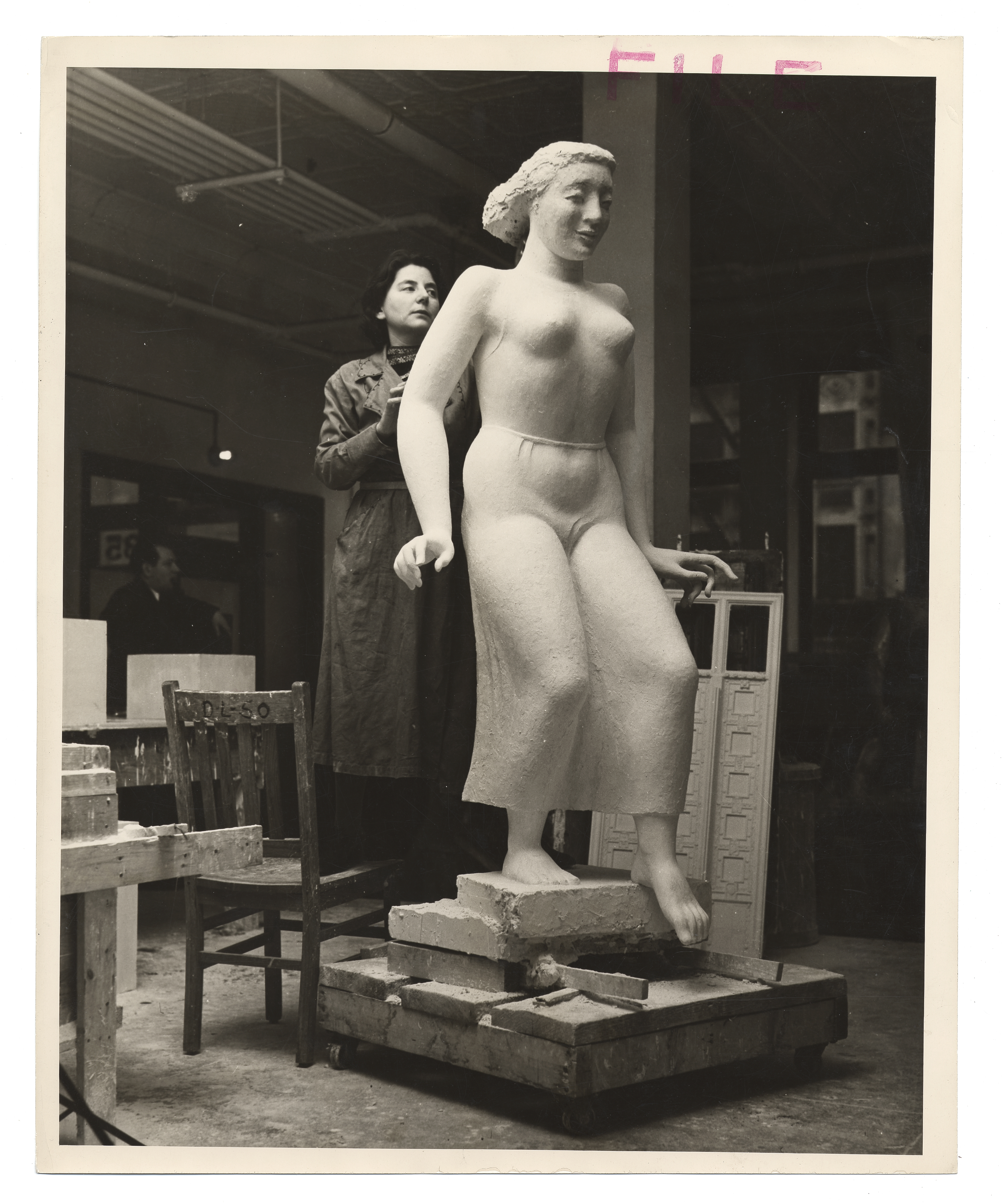 Melicov working on a sculpture. Identification on verso, left (handwritten and stamped): Title: Standing Figure; Artist: Dina Melicov; Medium: sculpture Identification on verso, right(handwritten and stamped):Federal Art Project W.P.A.; Photographic Division; 235 East 42nd Street; New York City Date: 2/25/38; Negative No.: P.2137; Photographer: Nadir.